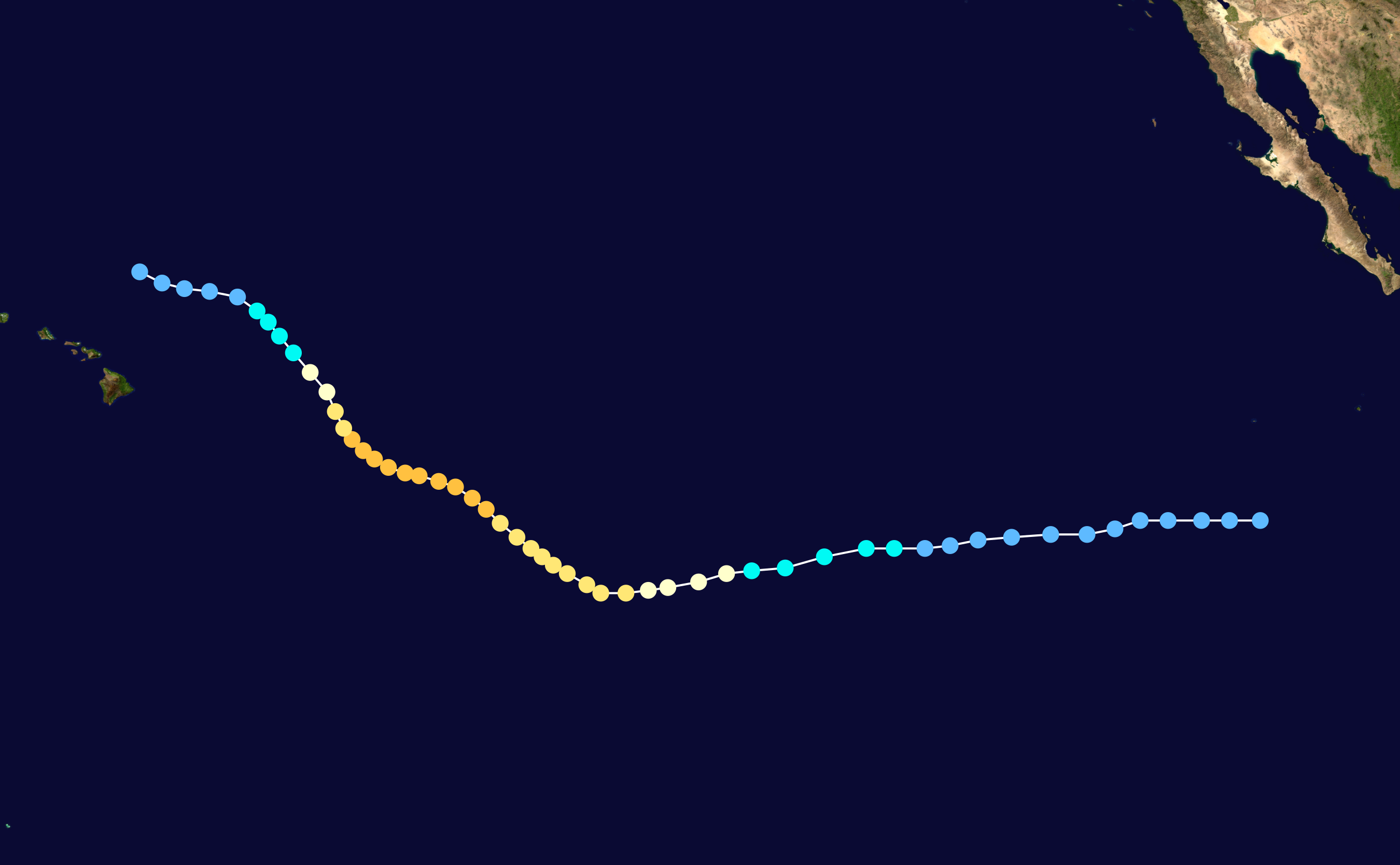 Hurricane Jova (2005) track. Uses the color scheme from the Saffir-Simpson Hurricane Scale.